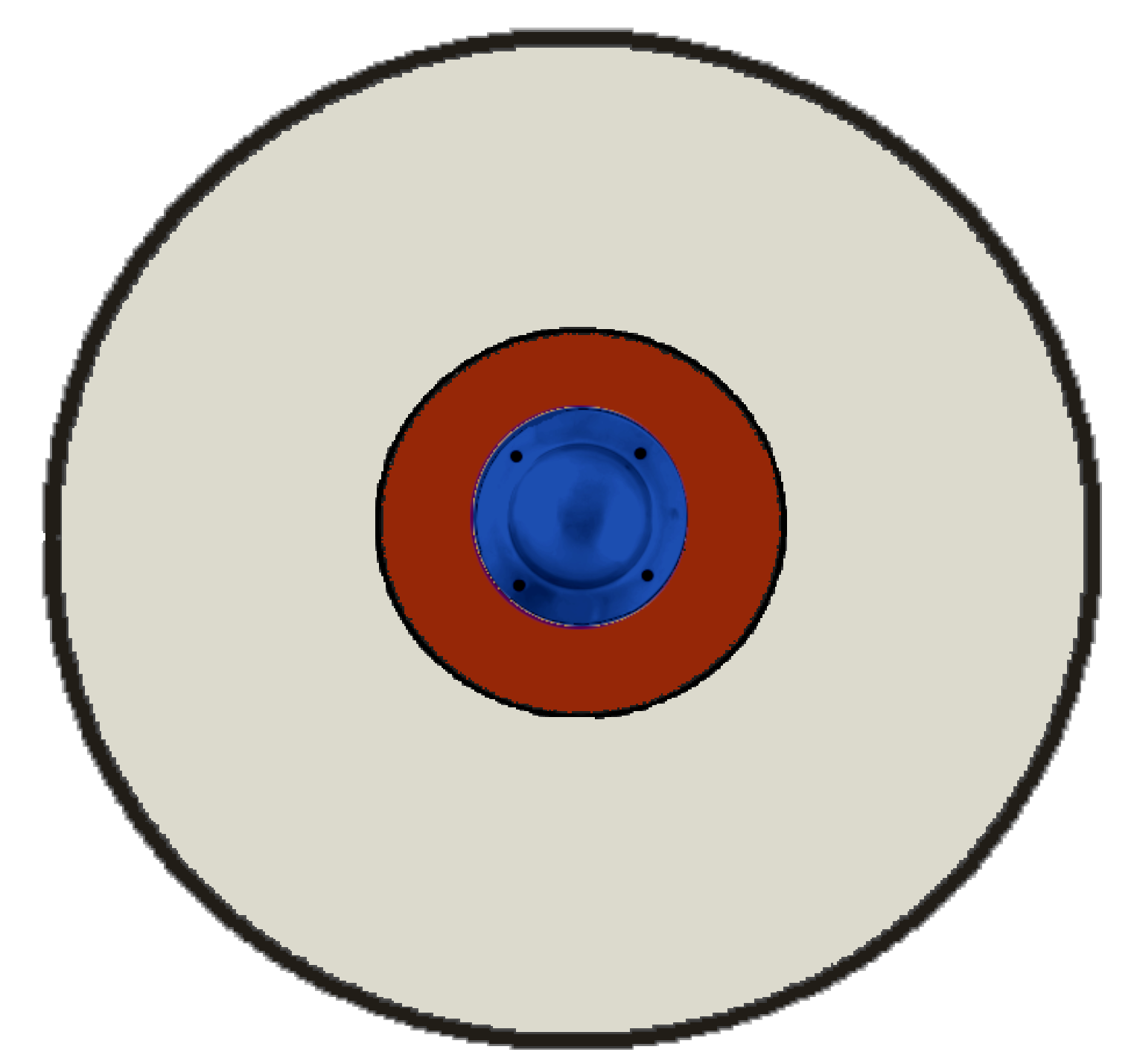 Shield pattern o.t. Equites Cornuti seniores, listed as the seventh of the vexillationes palatinae in the Magister Equitum's cavalry roster; it is assigned to the Magister Peditum's Italian command.